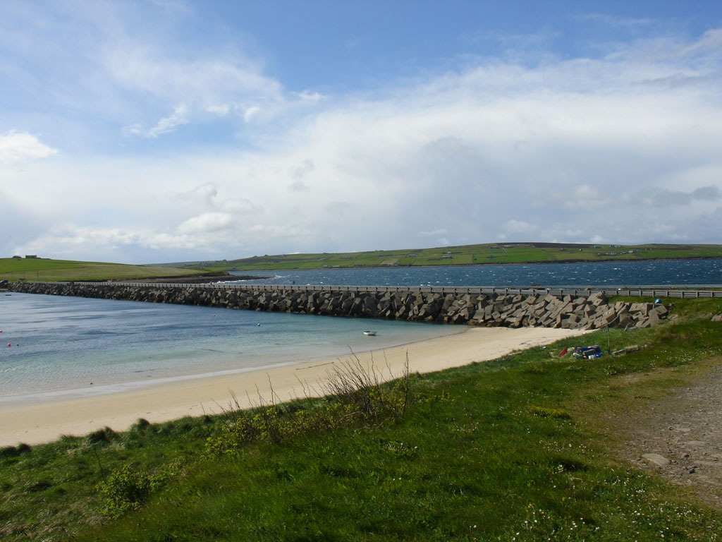 Churchill Barrier 3 from Glimps Holm toward Burray